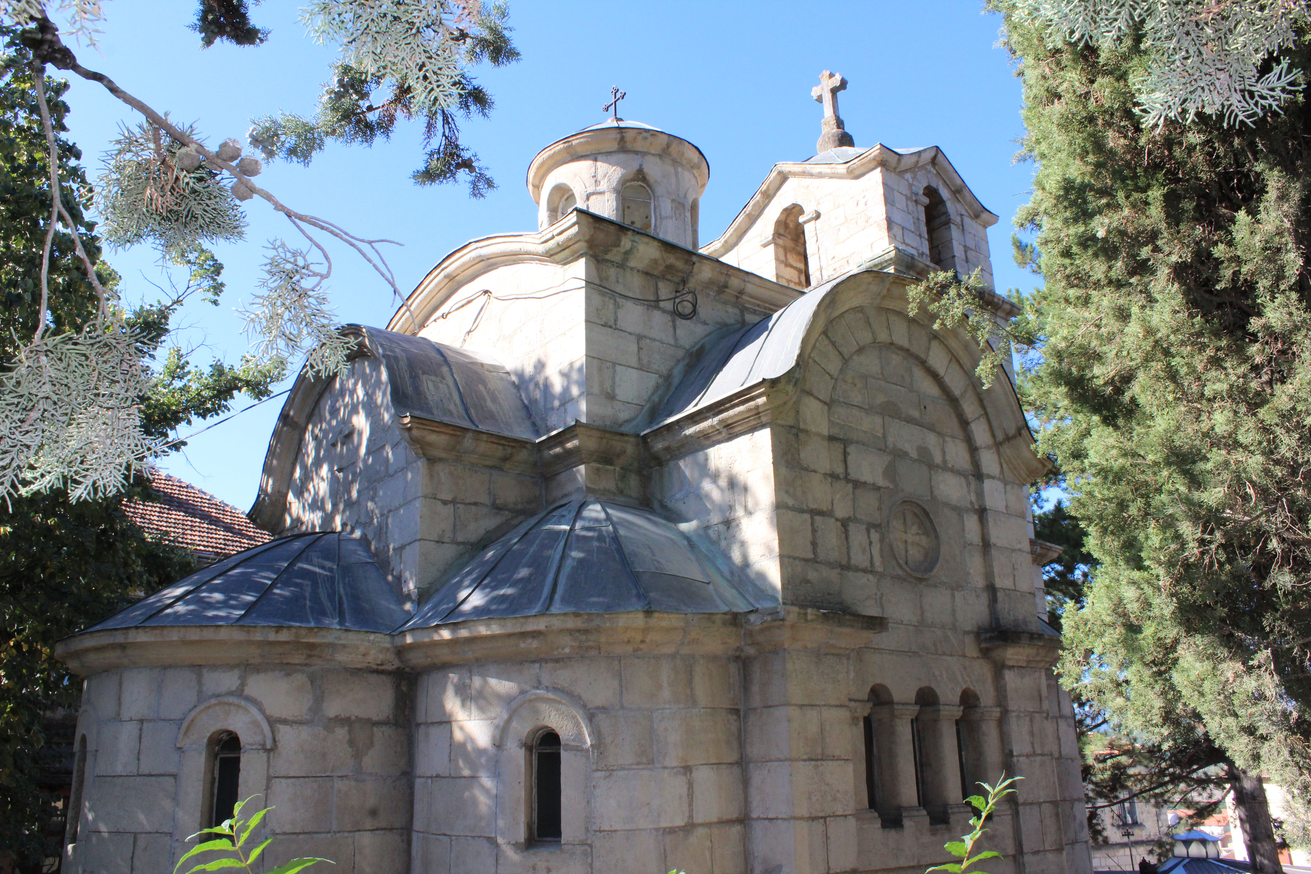 Vidovdanska crkva (Bileća). This image was uploaded as part of Trace of Soul 2019.